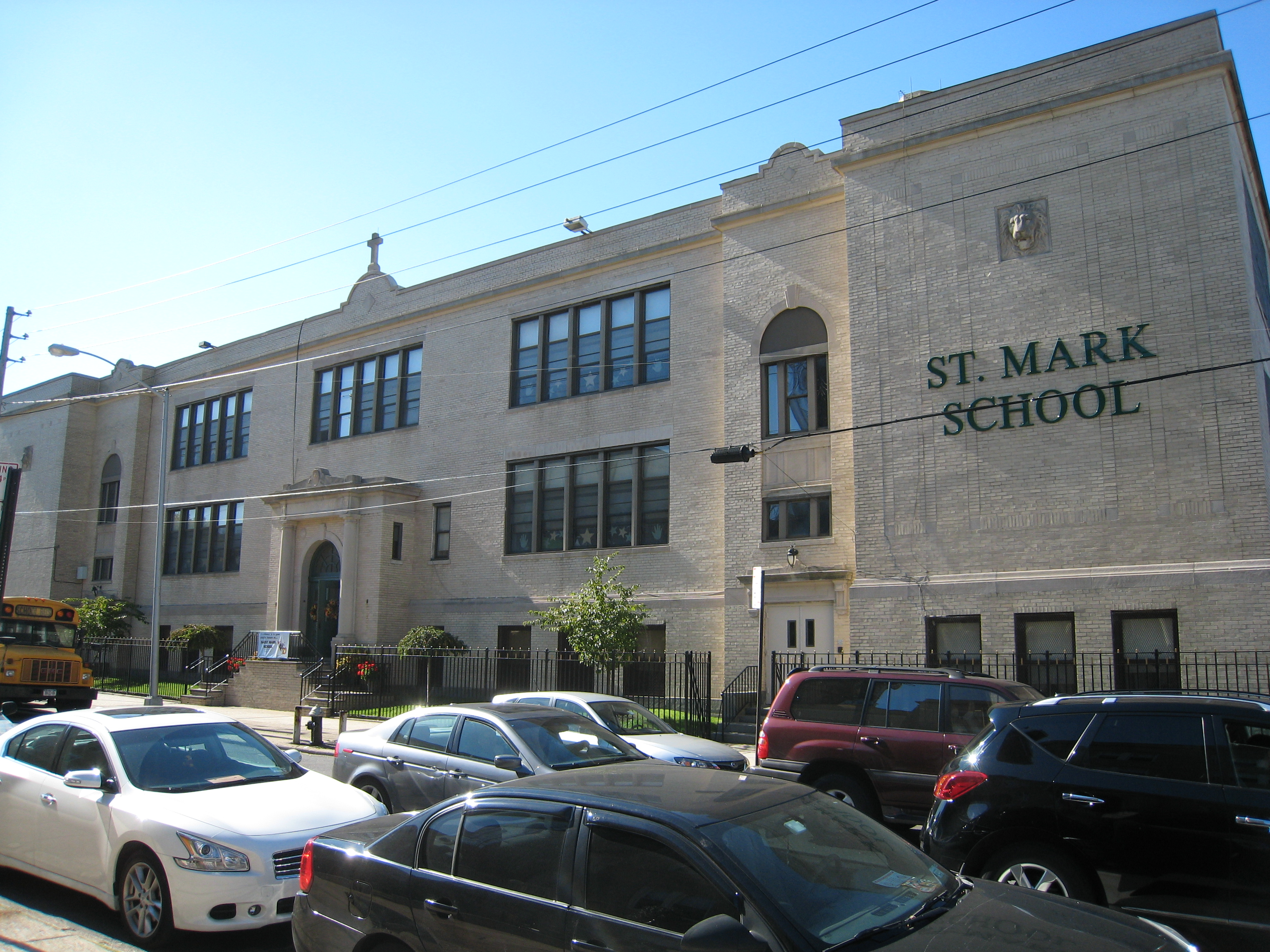 Sheepshead Bay